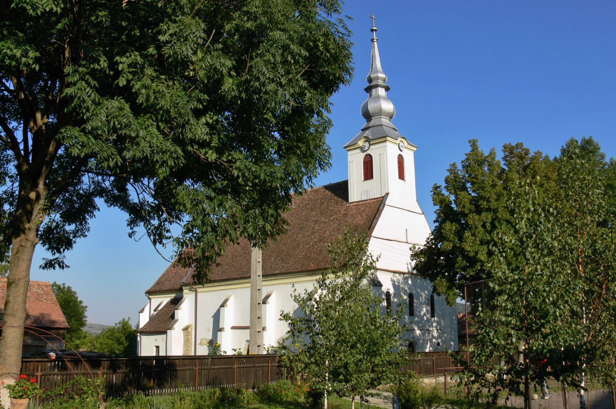 Catholic church of Székelykeresztúr, Transsylvania (Romania)